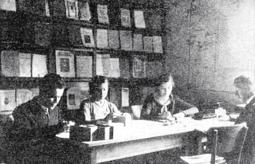 Students working at Sextil Pușcariu's "Museum of the Romanian Language", a research institute in Cluj.